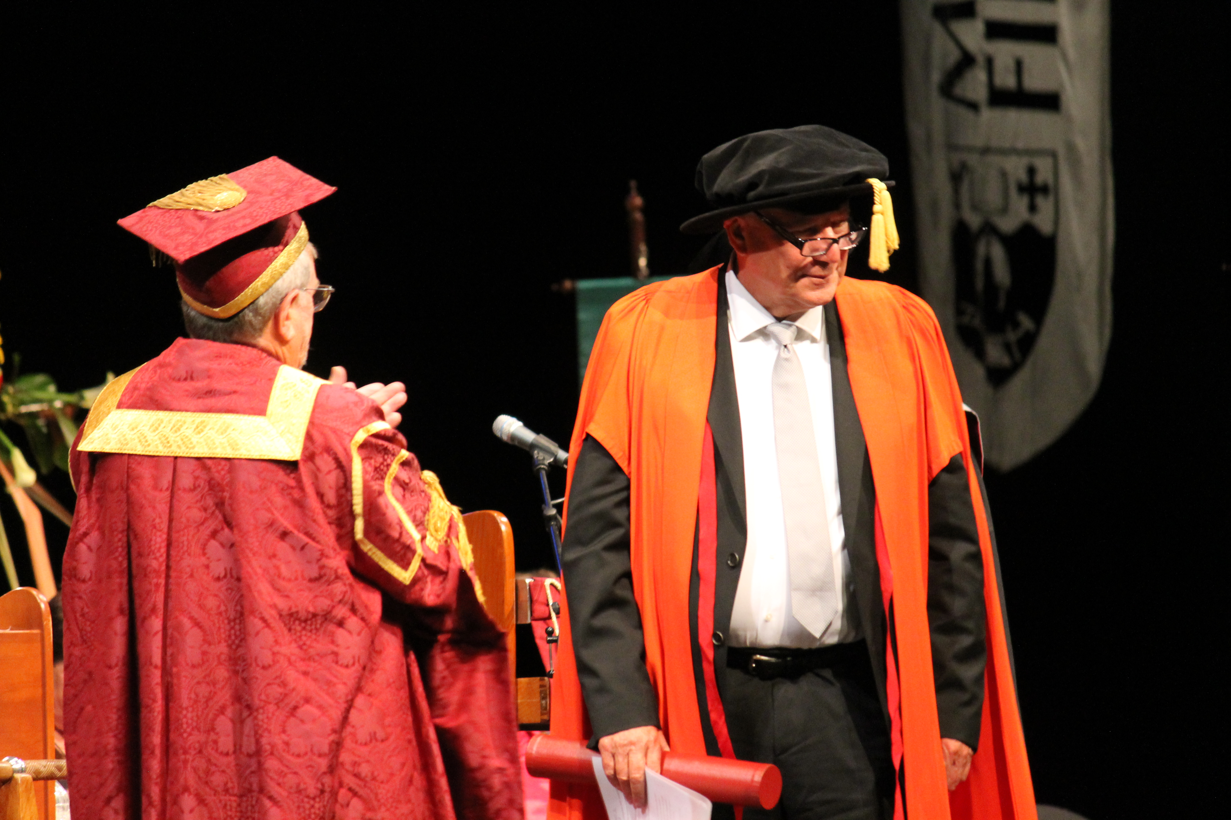 Graduation ceremony of the University of Canterbury on 17 April 2014.